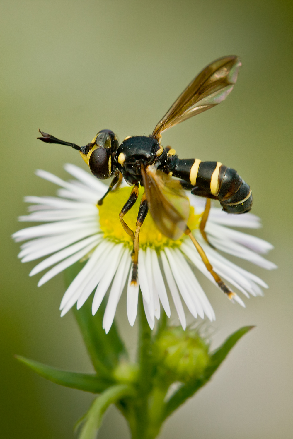 Conops flavipes